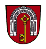 Coat of Arms of Leinach